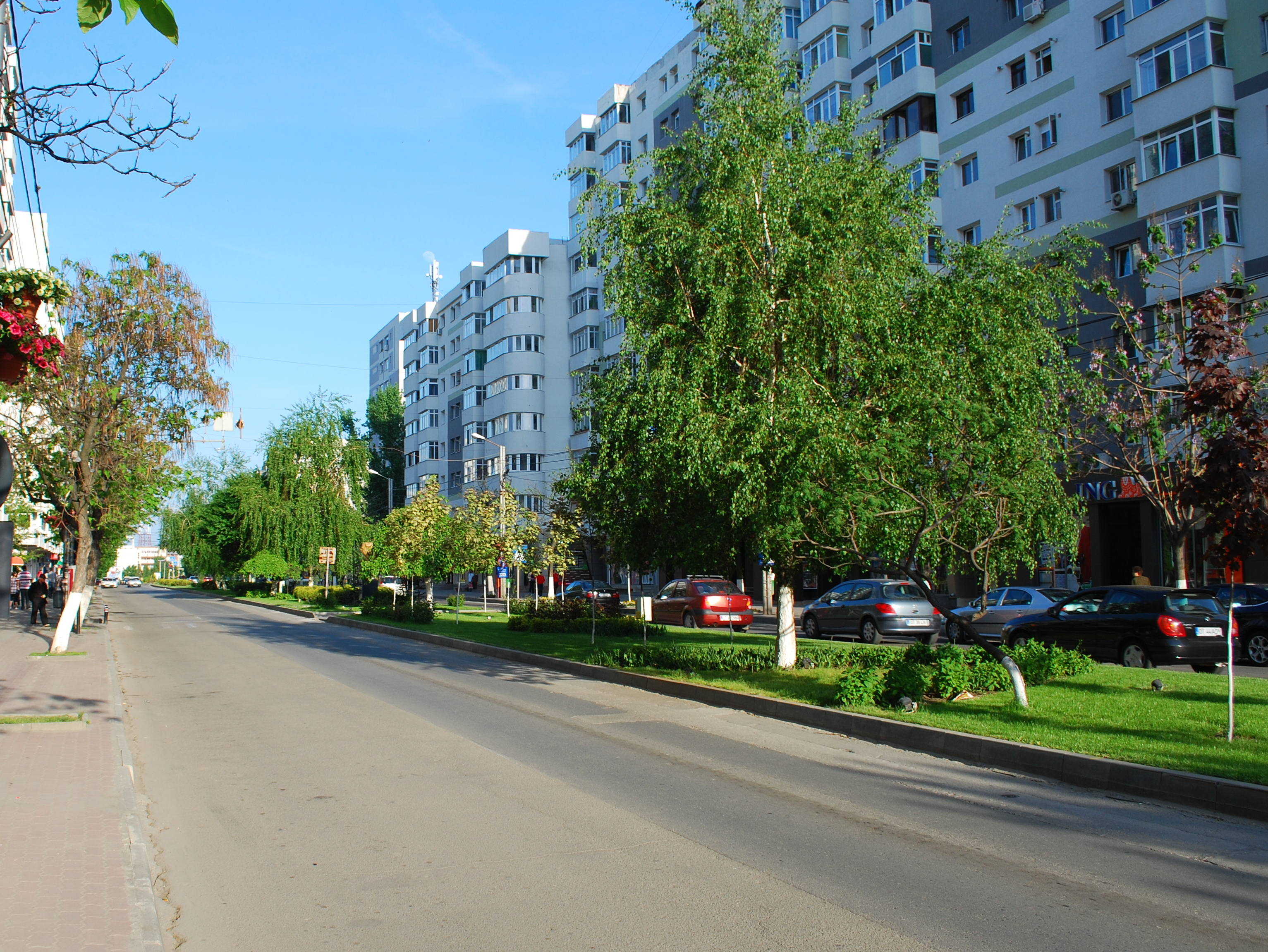 Alexandru Ioan Cuza Boulevard in Slatina, RomaniaRomână: Bulevardul Alexandru Ioan Cuza din Slatina, România